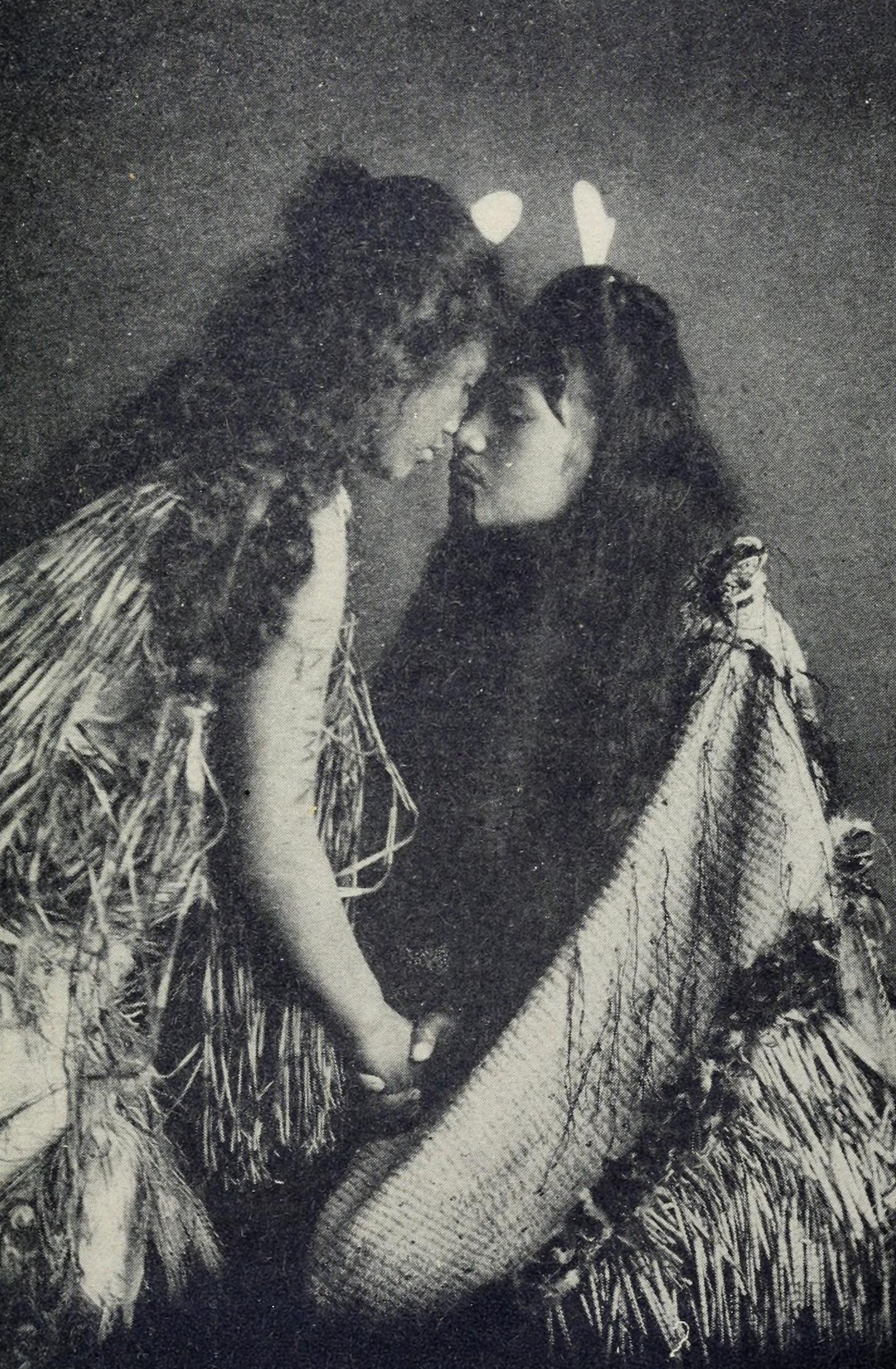 Two Maori Girls in Ancient Greeting.